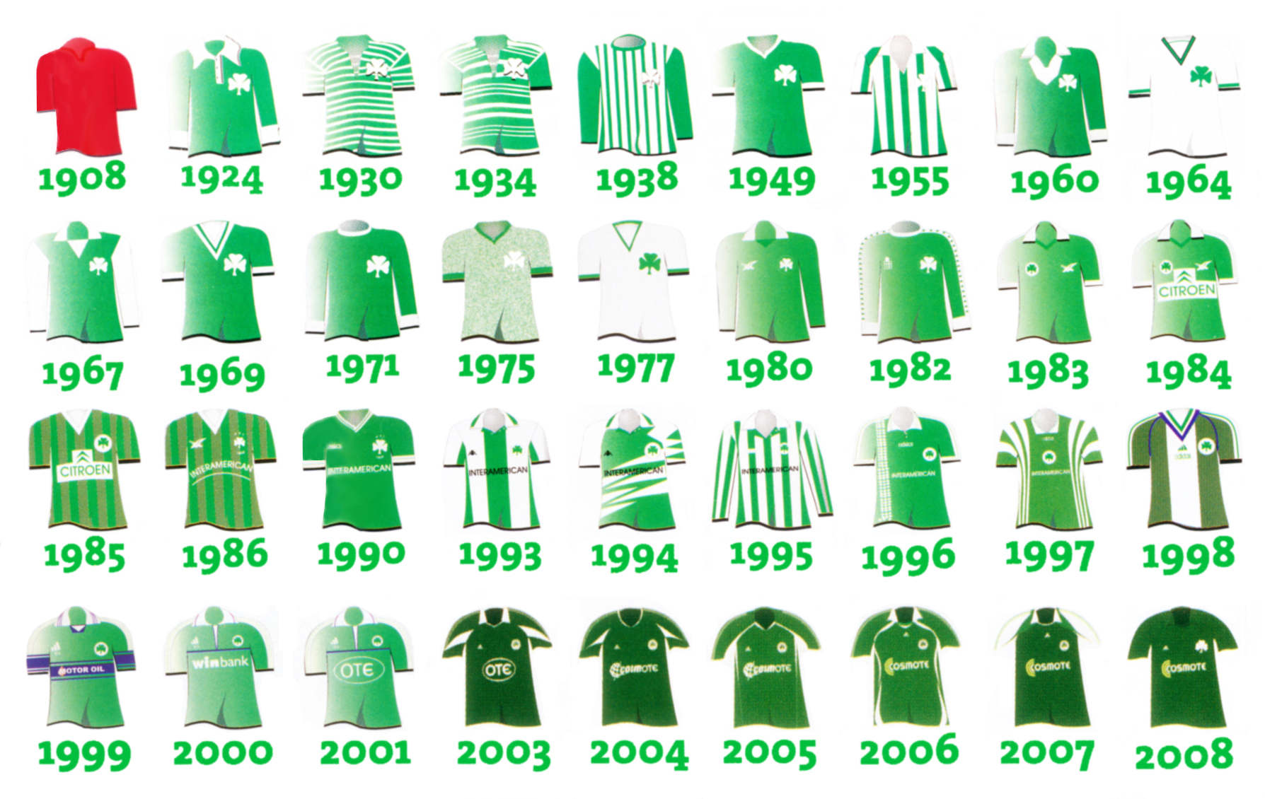 Draw of Panathinaikos football shirt